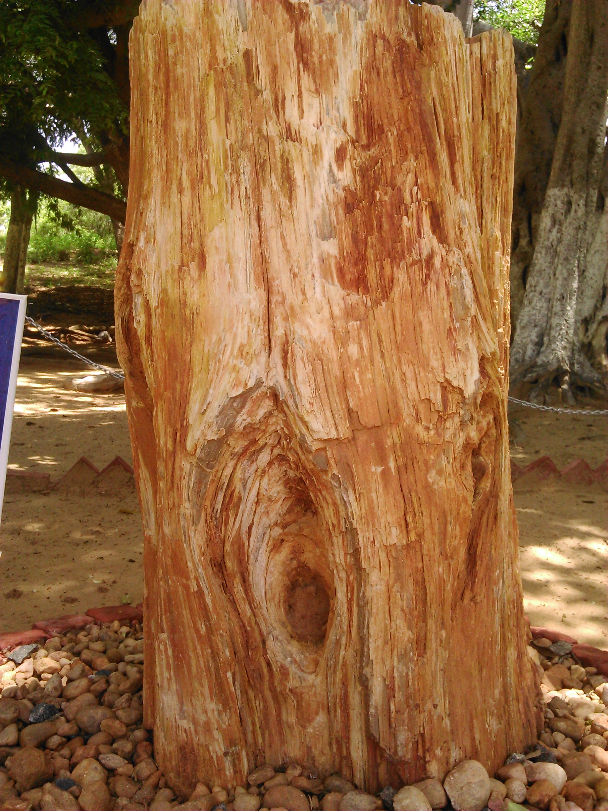 This is found in national fossil wood park at tiruvakkarai village at villupuram district